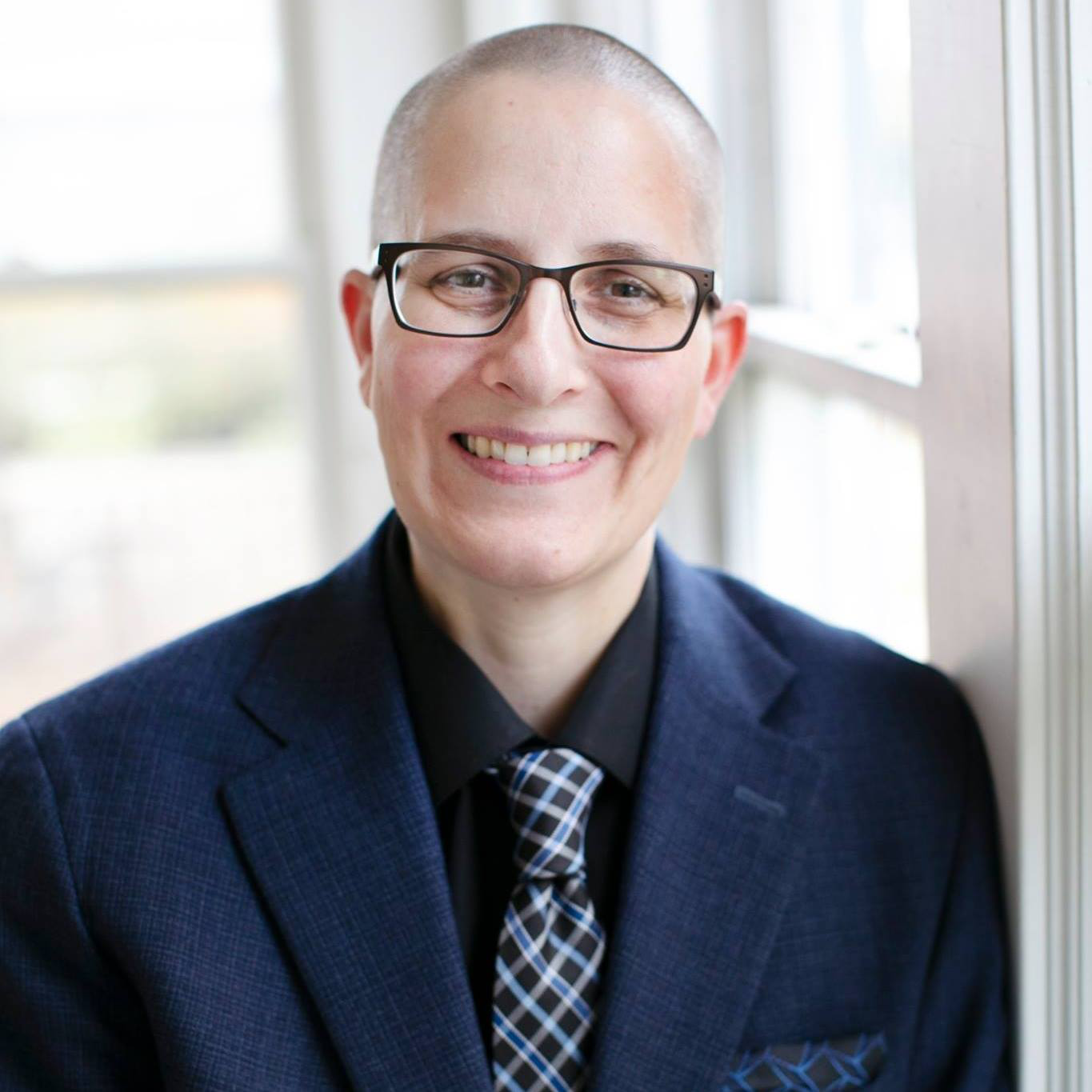 2018 Minnesota Teacher of the Year Kelly D. Holstine